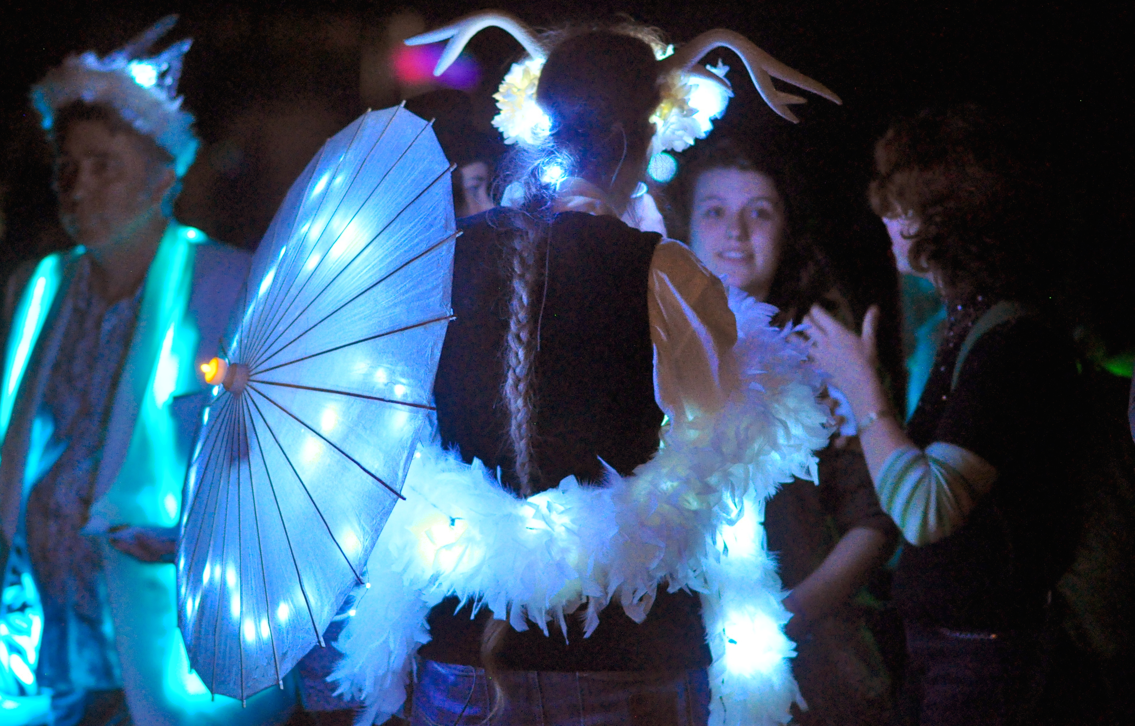 Luminata, celebration of the Autumnal Equinox, Green Lake Park, Seattle, Washington, U.S., September 21, 2016. Sponsored by the Fremont Arts Council.